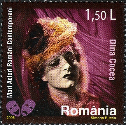 Dina Cocea, Stamps of Romania, 2006